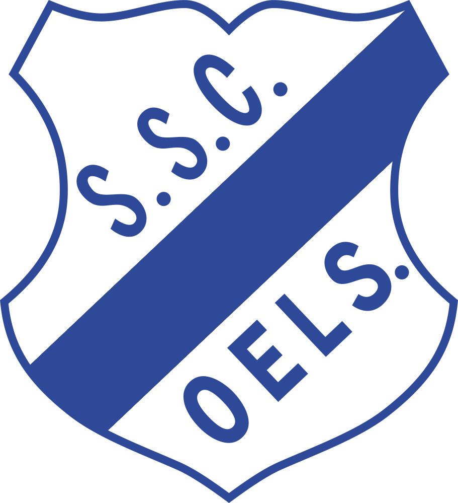 Logo of former german sportclub SSC Oels (1901 - 1945)